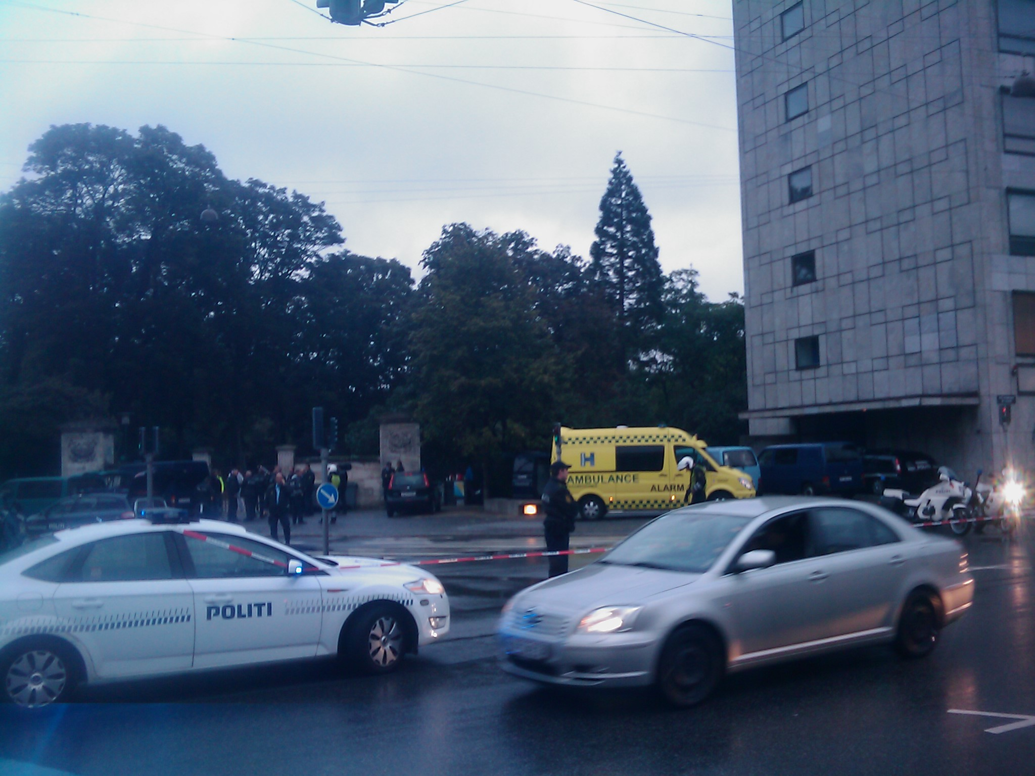 Hotel Jørgensen bomb case - emergency scene sealed of by the Danish police at the intersection of Nørre Farimagsgade and H.C. Andersens Boulevard in Copenhagen, Denmark, next to the west entrance of Ørstedsparken, where a bomb suspect is being detained by the police in relation to the bomb explosion at Hotel Jørgensen on September 10 2010.